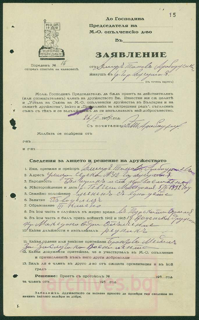 Demir Tomov Document